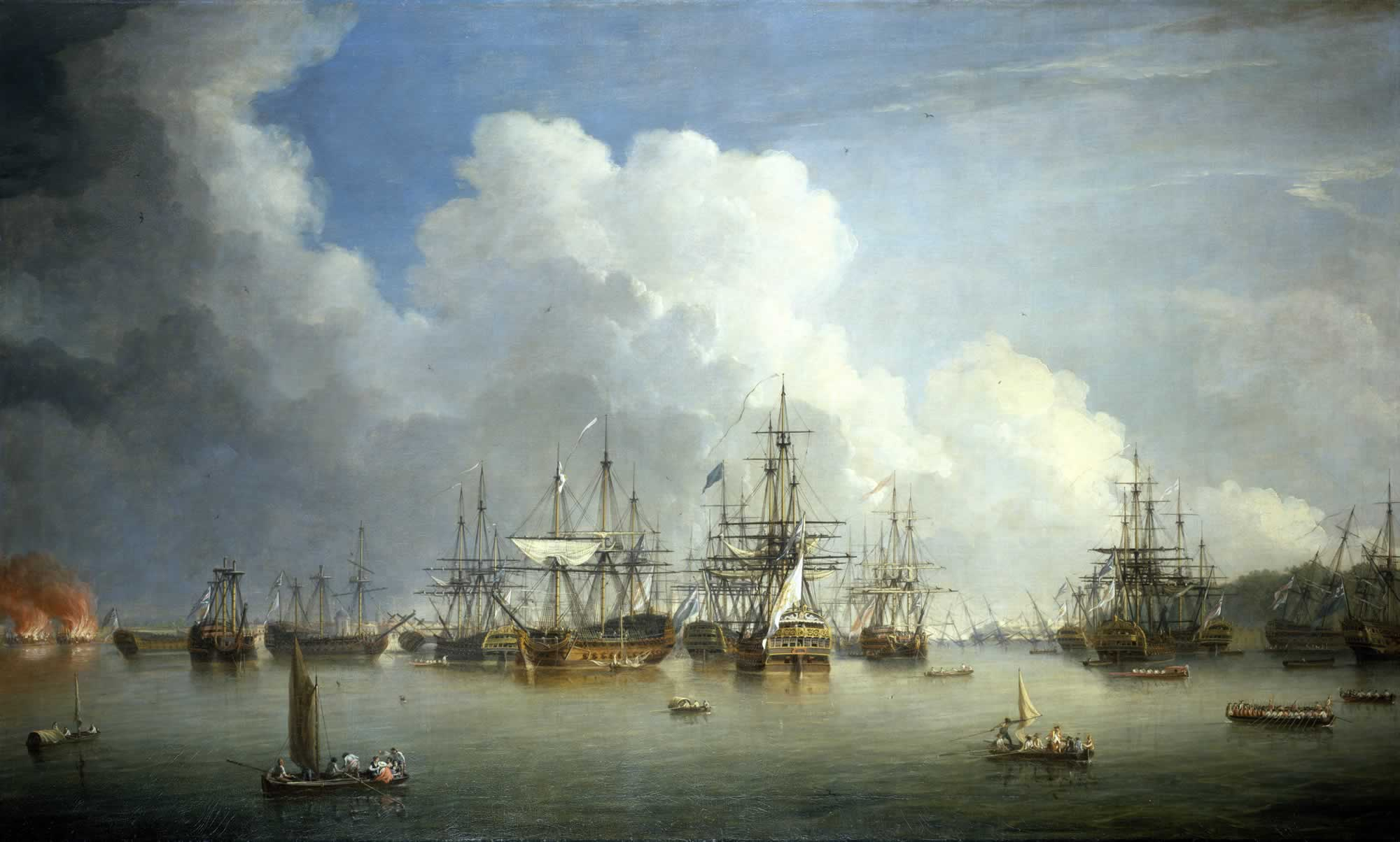 A depiction of an episode from the last major operation of the Seven Years War, 1756–63. It was part of England's offensive against Spain when she entered the war in support of France late in 1761. The British government's response was immediately to plan large offensive amphibious operations against Spanish overseas possessions, particularly Havana, the capital of the western dominions, and Manila, the capital in the east. Havana needed large forces for its capture and early in 1762 ships and troops were dispatched under Admiral Sir George Pocock and General the Earl of Albemarle. The force that descended on Cuba consisted of 22 ships of the line, four 50-gun ships, three 40-gunners, a dozen frigates and a dozen sloops and bomb vessels. In addition there were troopships, storeships, and hospital ships. Pocock took this great fleet of about 180 vessels from Jamaica and sailed through the dangerous Old Straits of Bahama, to take Havana by surprise. The scene refers to the conclusion of the naval operation. The painting is a complex panorama depicted from the southern end of the harbour, showing the captured Spanish warships at anchor, ships on the stocks being burnt at left and the sunlit fortress of El Morro seen down an open sightline at the centre right. The tropical cloud formation in the background is an important element of the composition and execution.